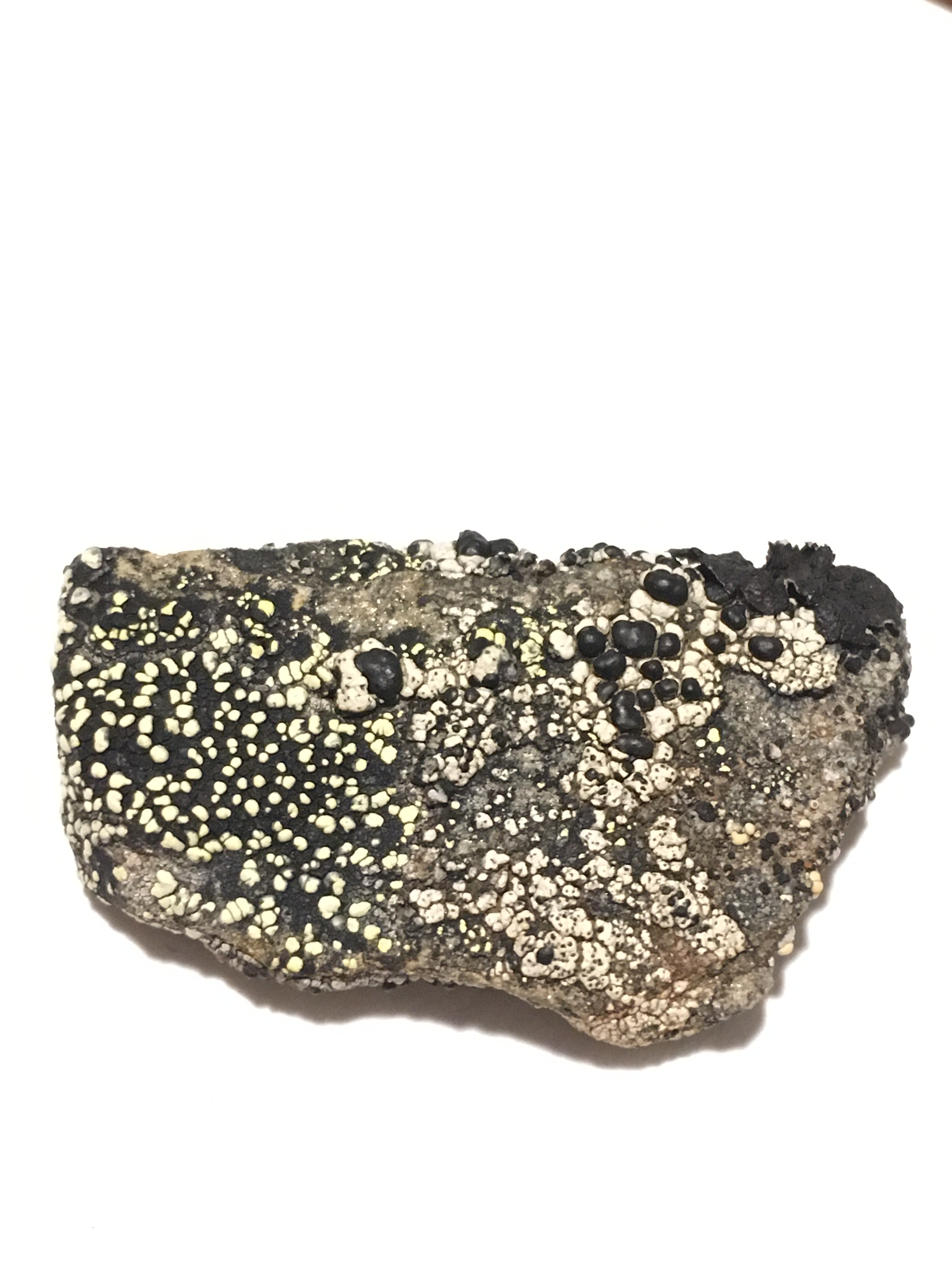 Calvitimela aglaea (Sommerf.) Hafellner, with light yellow thallus and shiny black apothecia, residing on the right hand side of a small rock.